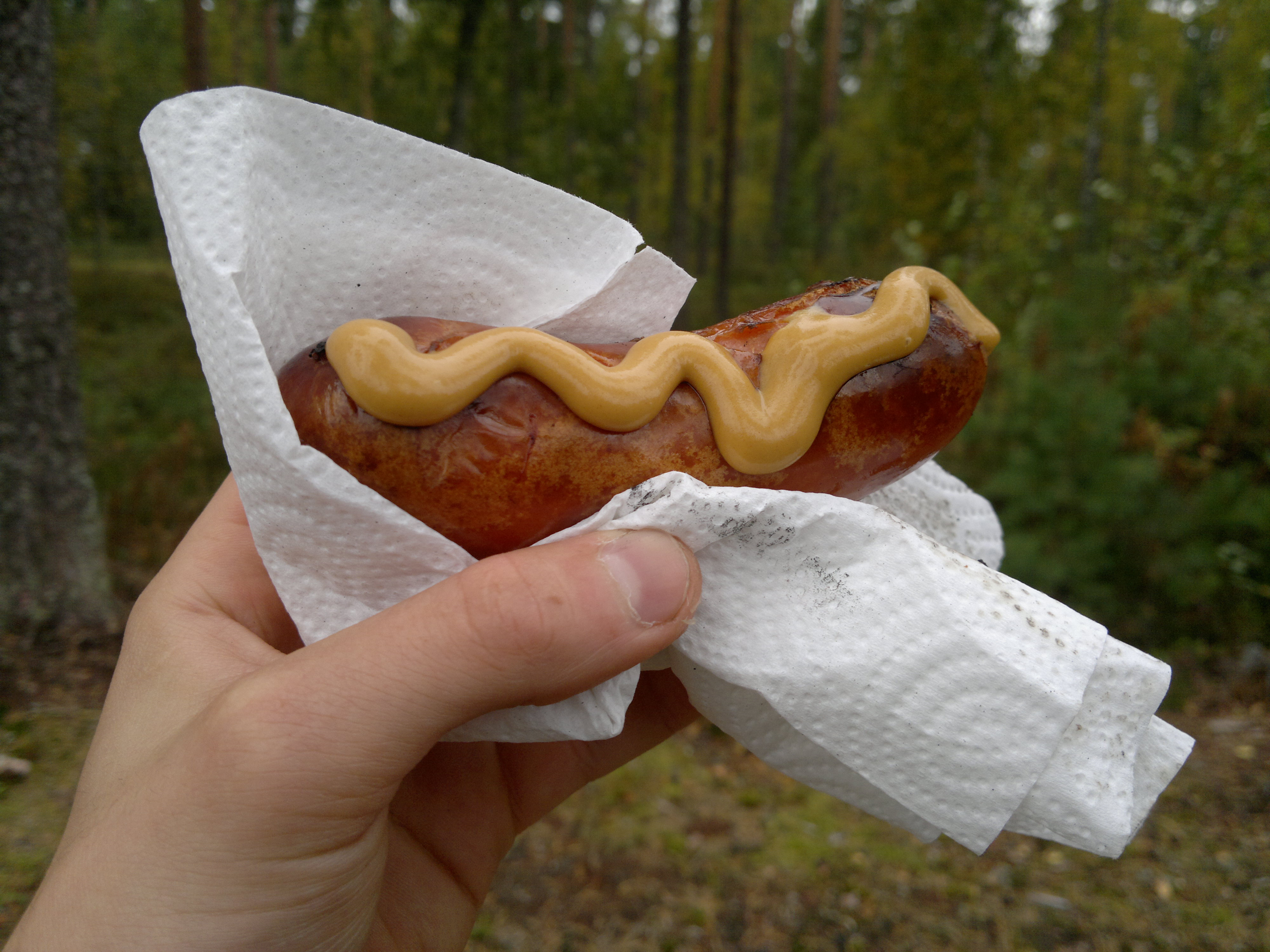 Sausage with mustard.